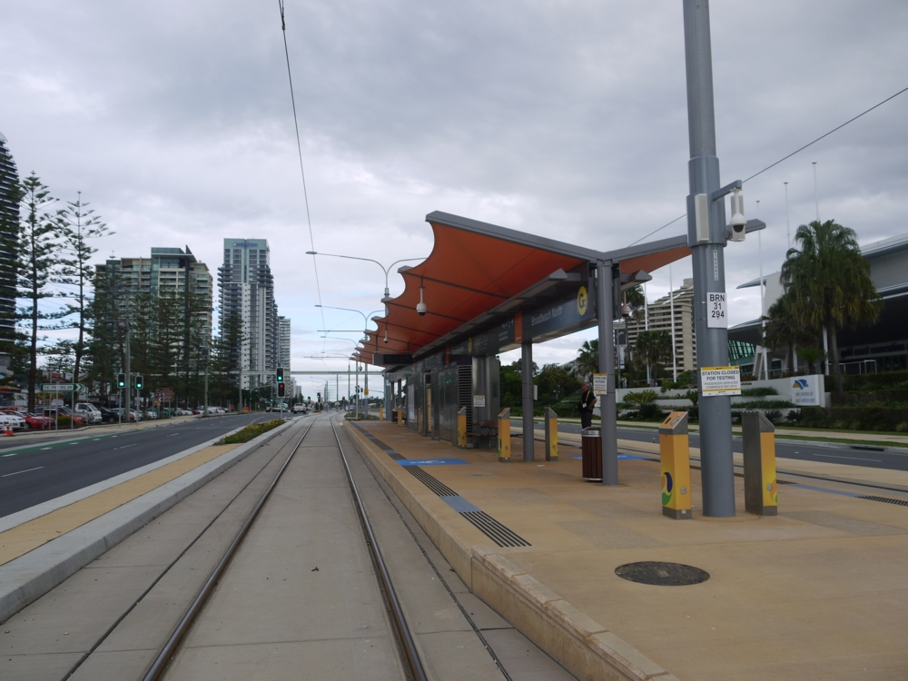 Broadbeach North Station